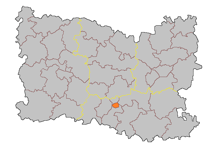 Кантон Крей-Сюд на карте департамента Уаза